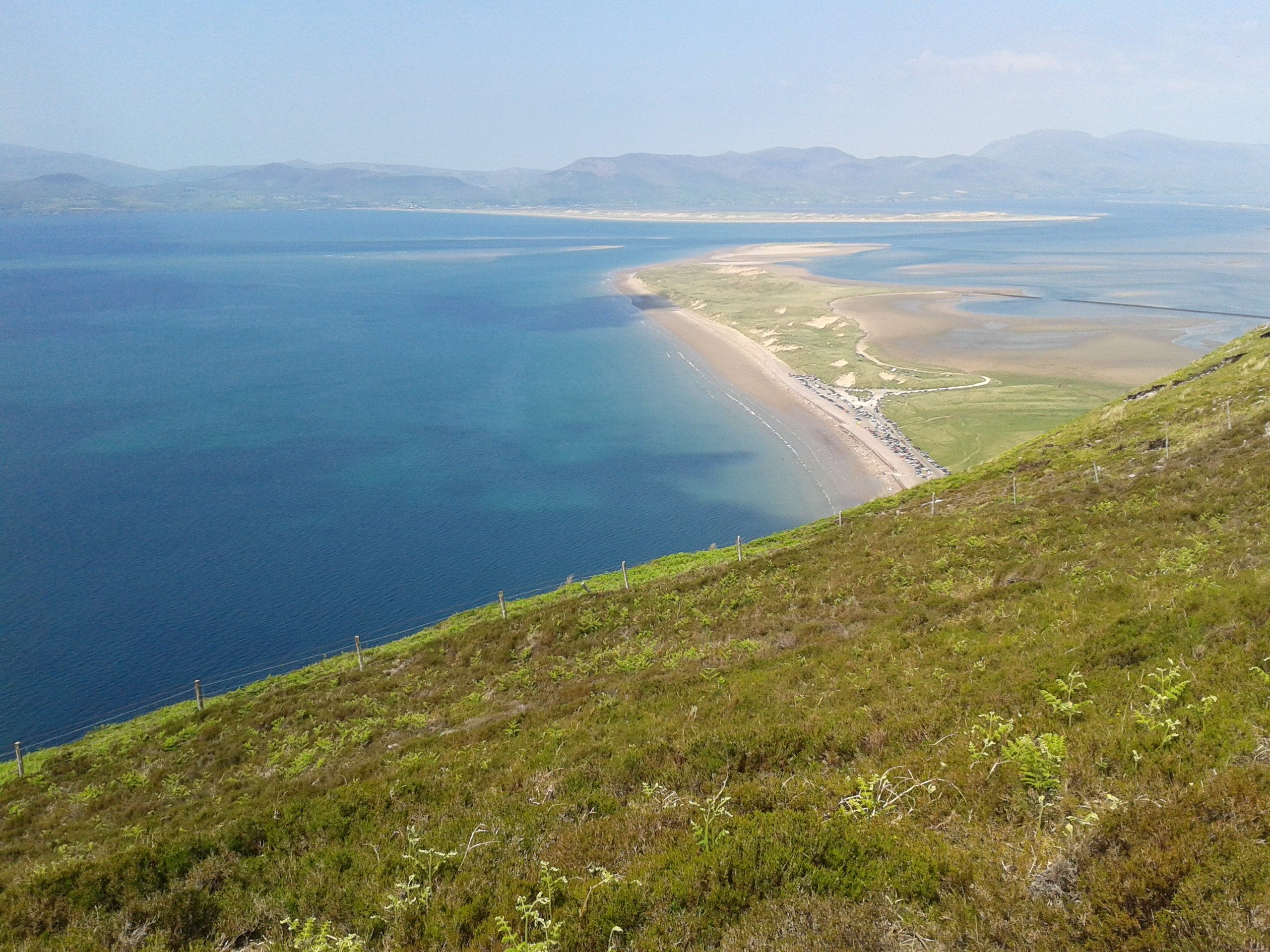 This is a picture that shows the amazing view of Rossbeigh Beach in Glenbeigh village, Co Kerry - Ireland